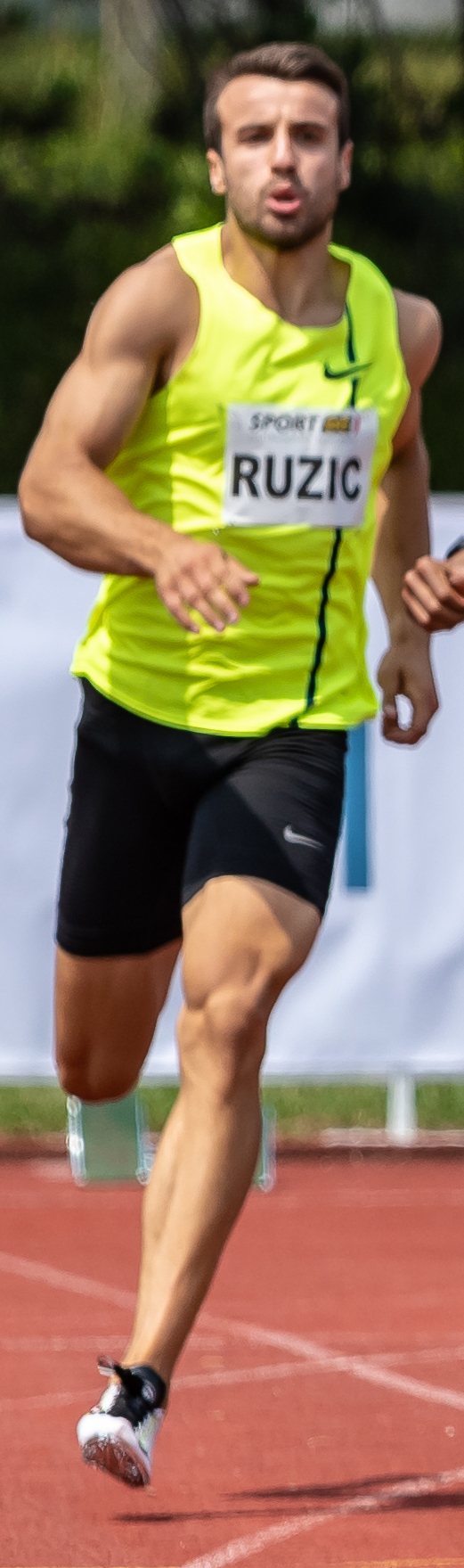 Leichtathletik Gala Linz 2018; men´s 400 m sprint; Zalewski Karol, AZS AWF Katowice